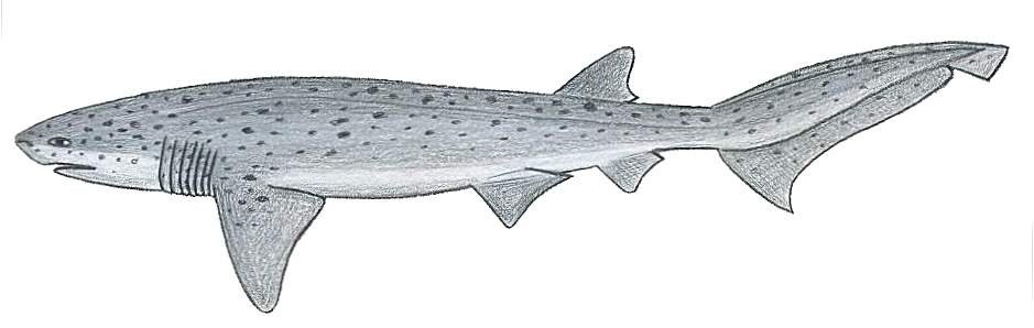 broadnose sevengill shark (Notorynchus cepedianus)